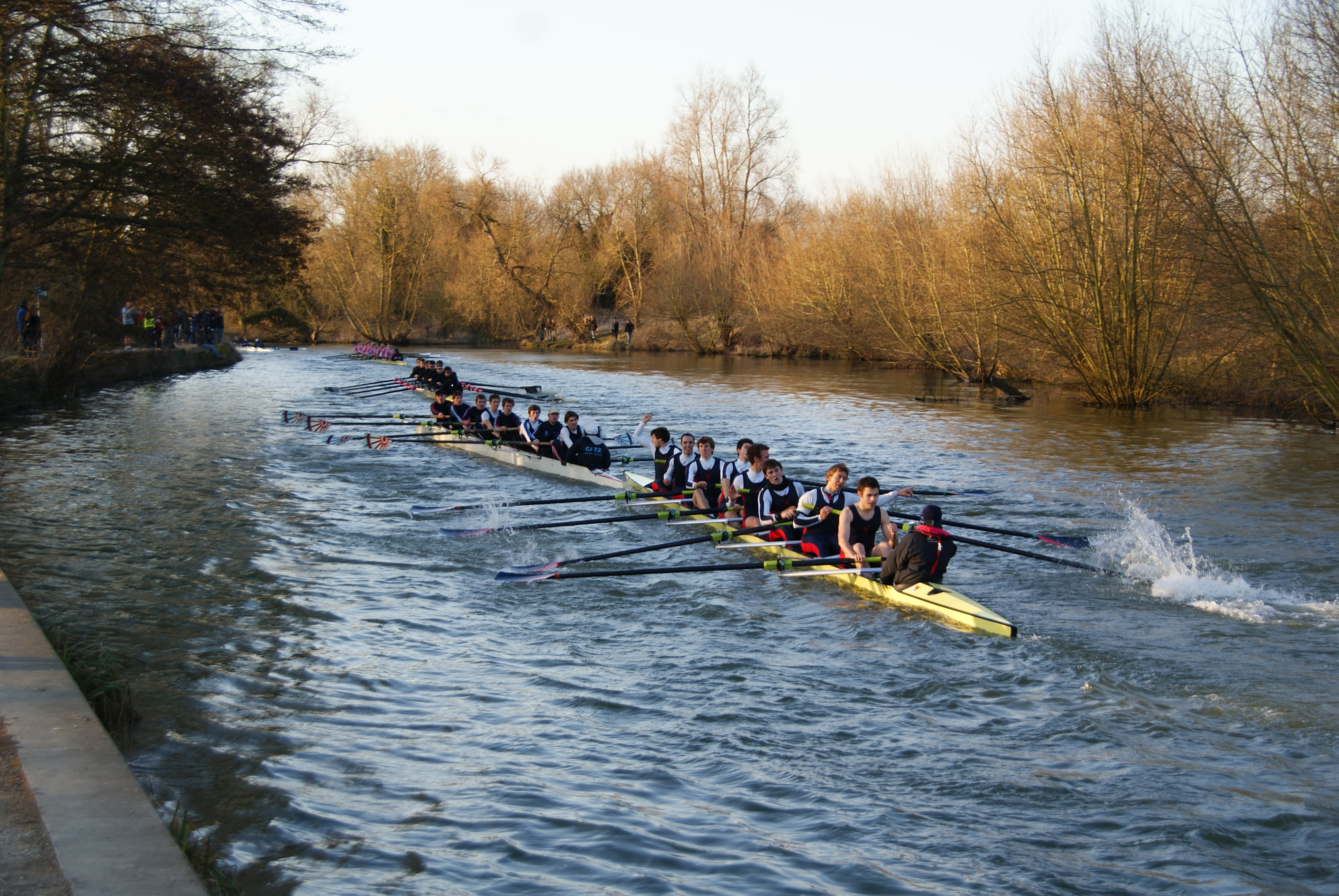 A successful bump in Torpids Balliol catching St Catz.